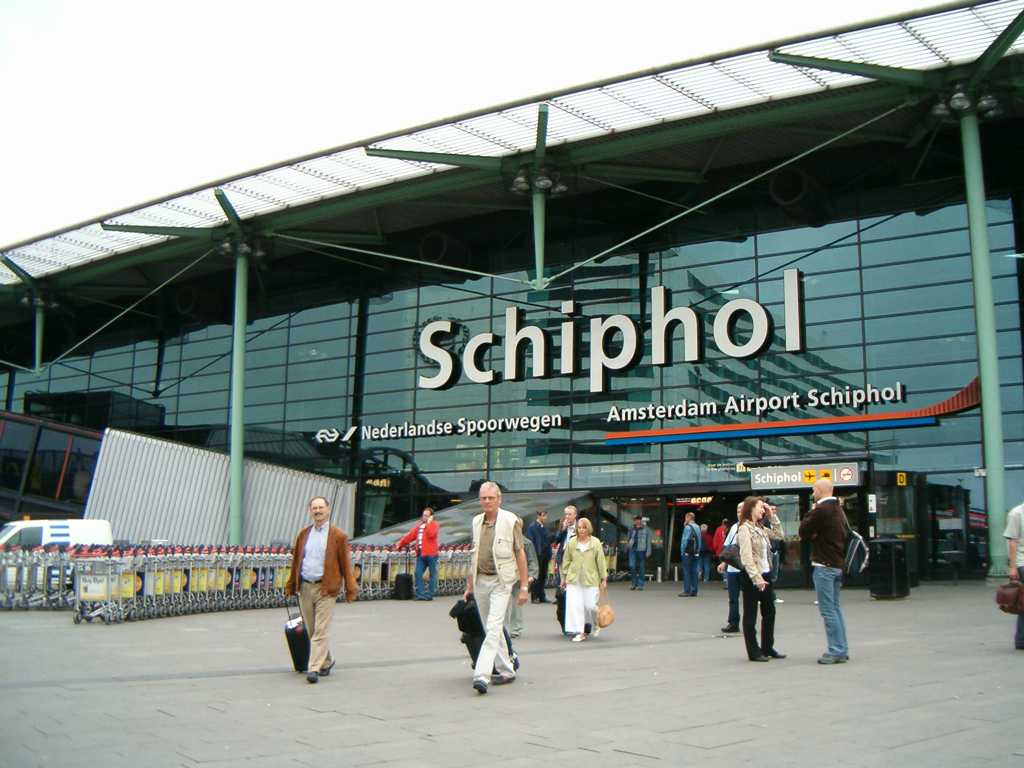 Schiphol Plaza/NS on Amsterdam Airport Schiphol.